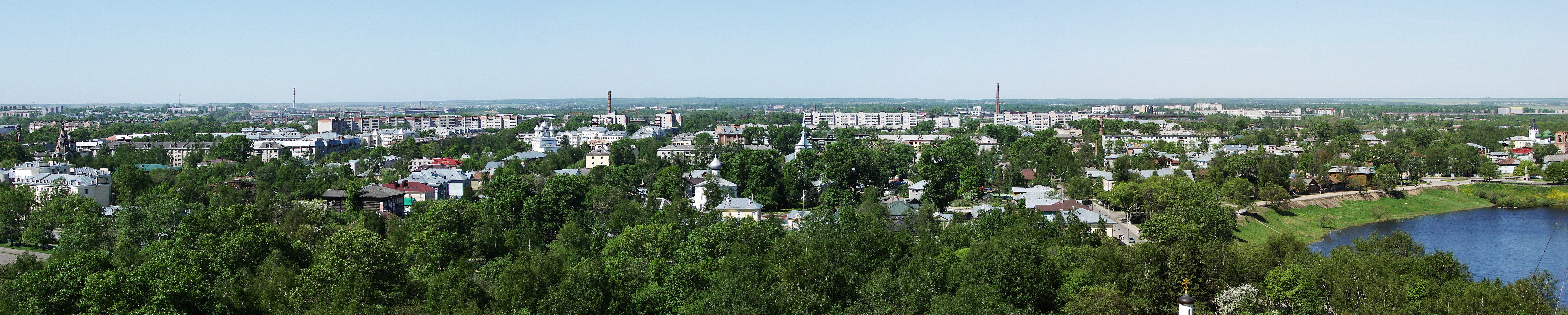 Russia, Vologda, Panoramic view